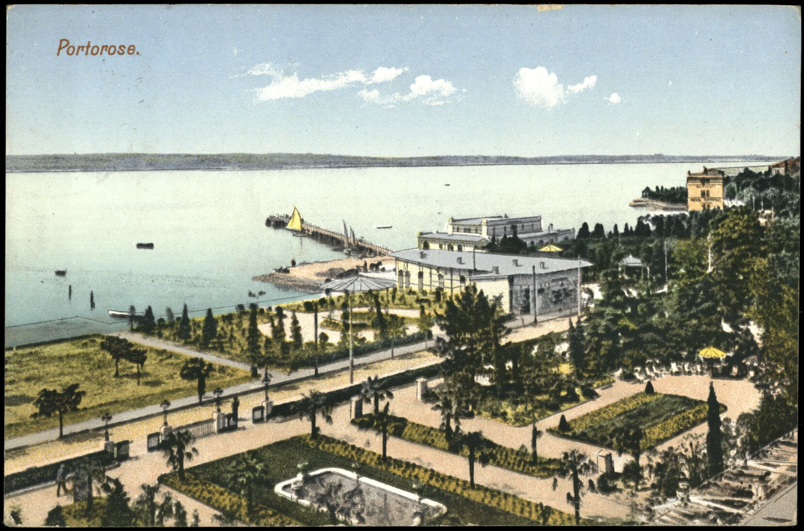 Postcard of Portorož.